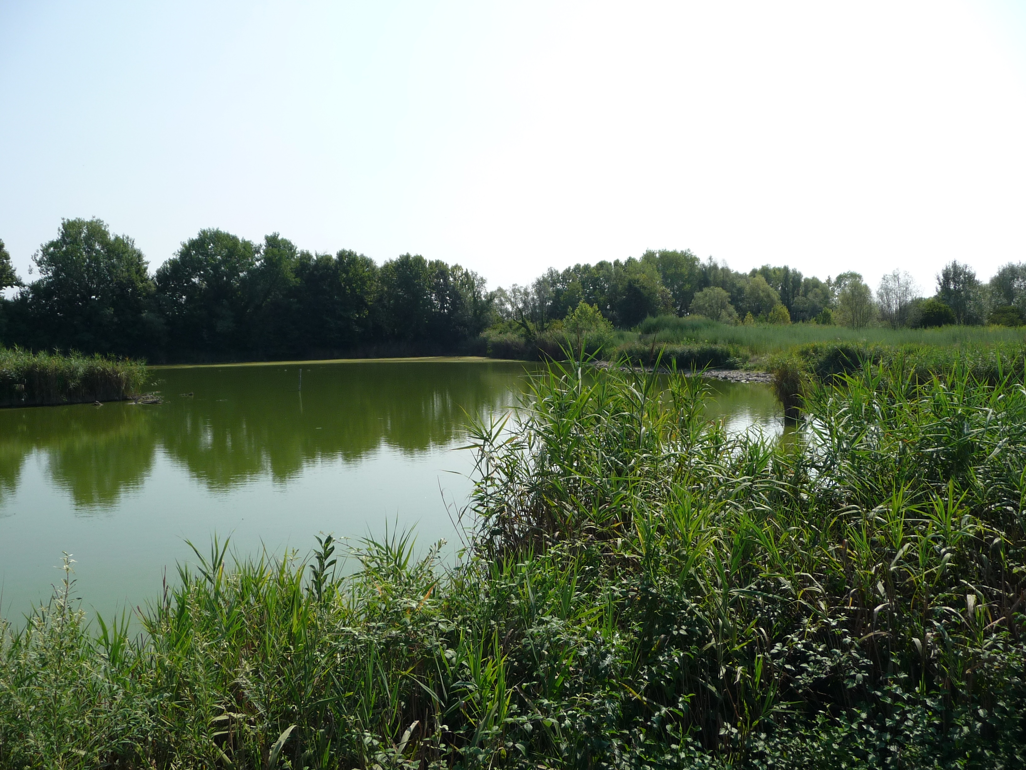 WWF Oasis of Stagni di Casale, Vicenza, Italy.